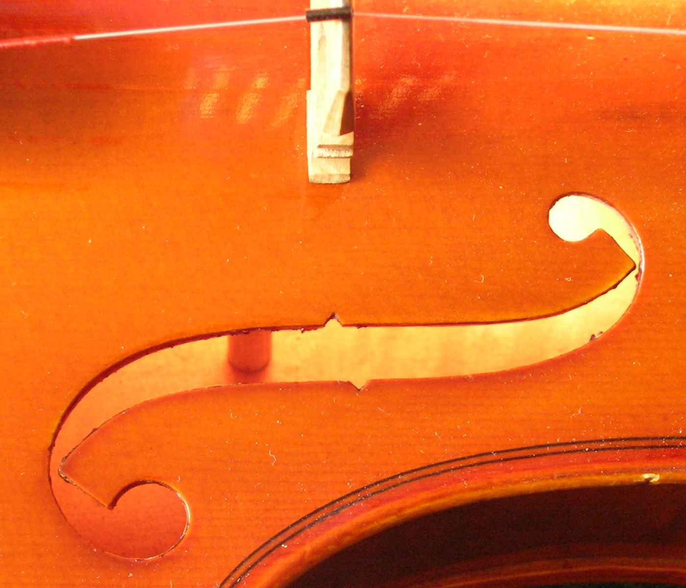 Close-up view of a working violin, warts and all. Bottom end of soundpost shows through treble f-hole.